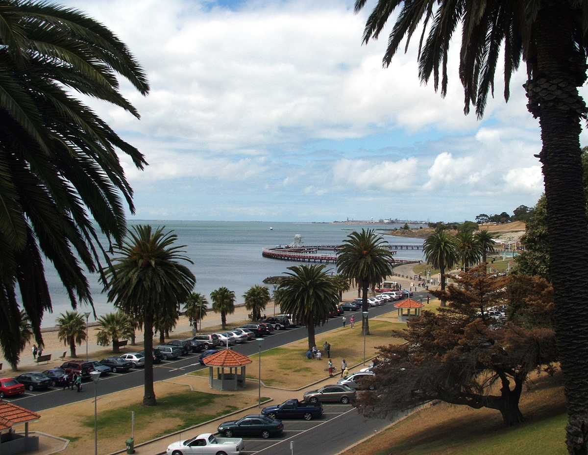 Looking north-east down onto Eastern Beach, Geelong, Victoria, Australia. Taken on a partly cloudy summer afternoon, during prolonged drought.